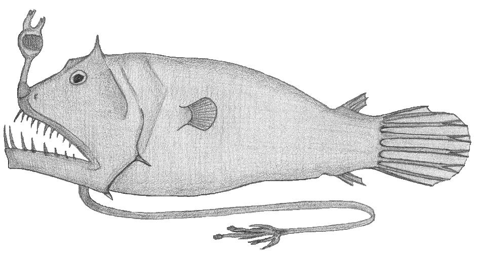 Linophryne coronata Illustrated by Ray Simpson